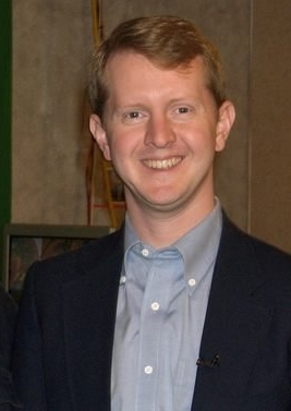 Photo of Ken Jennings when he was interviewed at KUSI-TV In San Diego Please acknowledge "Phil Konstantin" as the creator of this photograph.